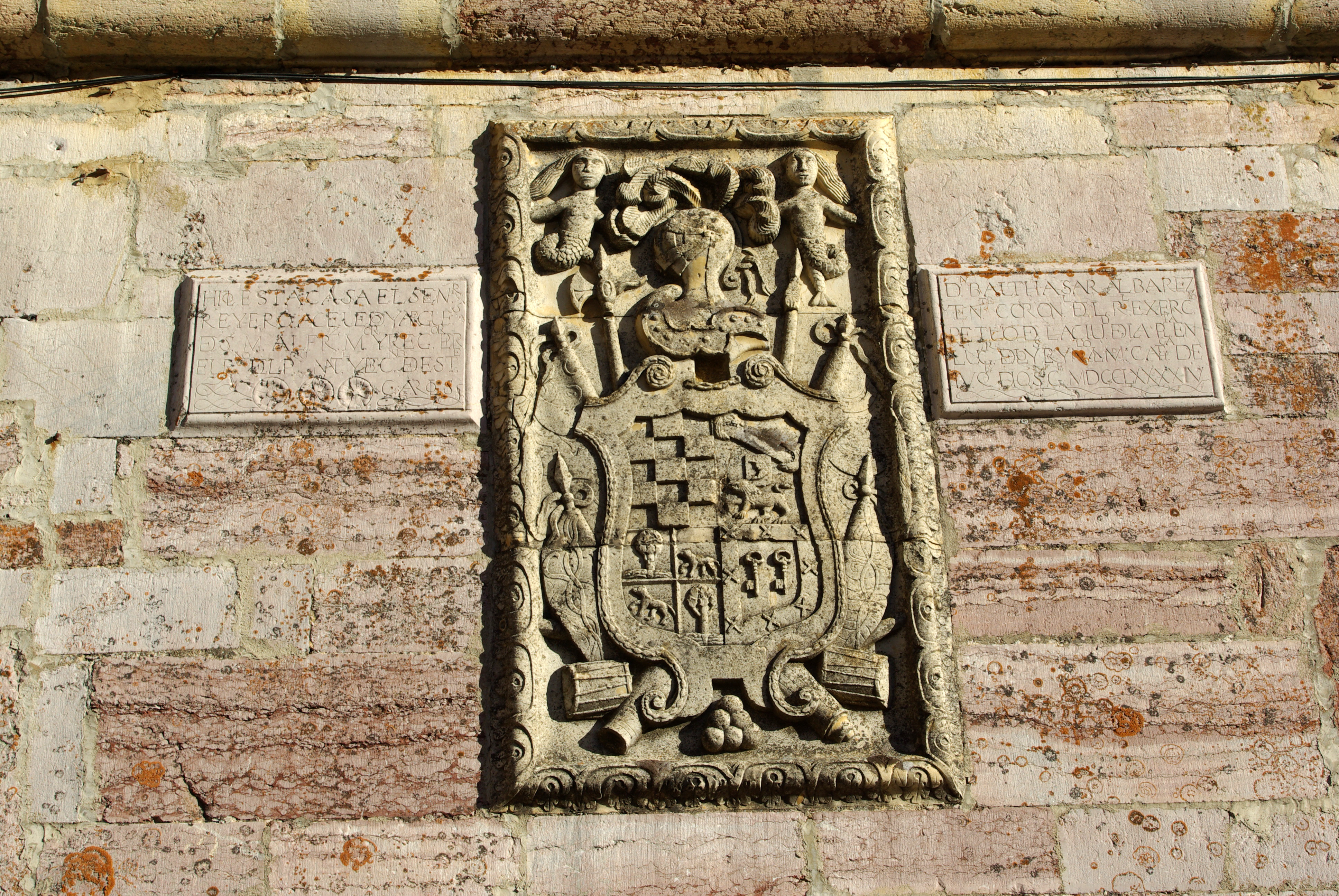 Escutcheon of Reyero's Palace in Lois, Crémenes (León, Spain).